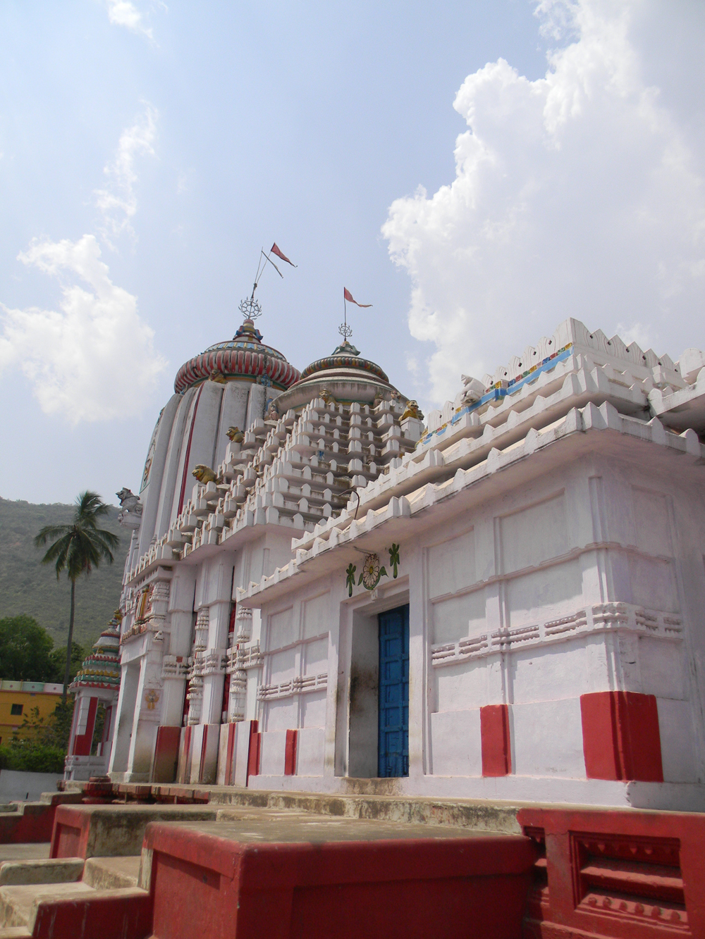 ଓଡ଼ିଆ: Ranapur Jagannath Temple This media file is uploaded with Odia loves Wikipedia